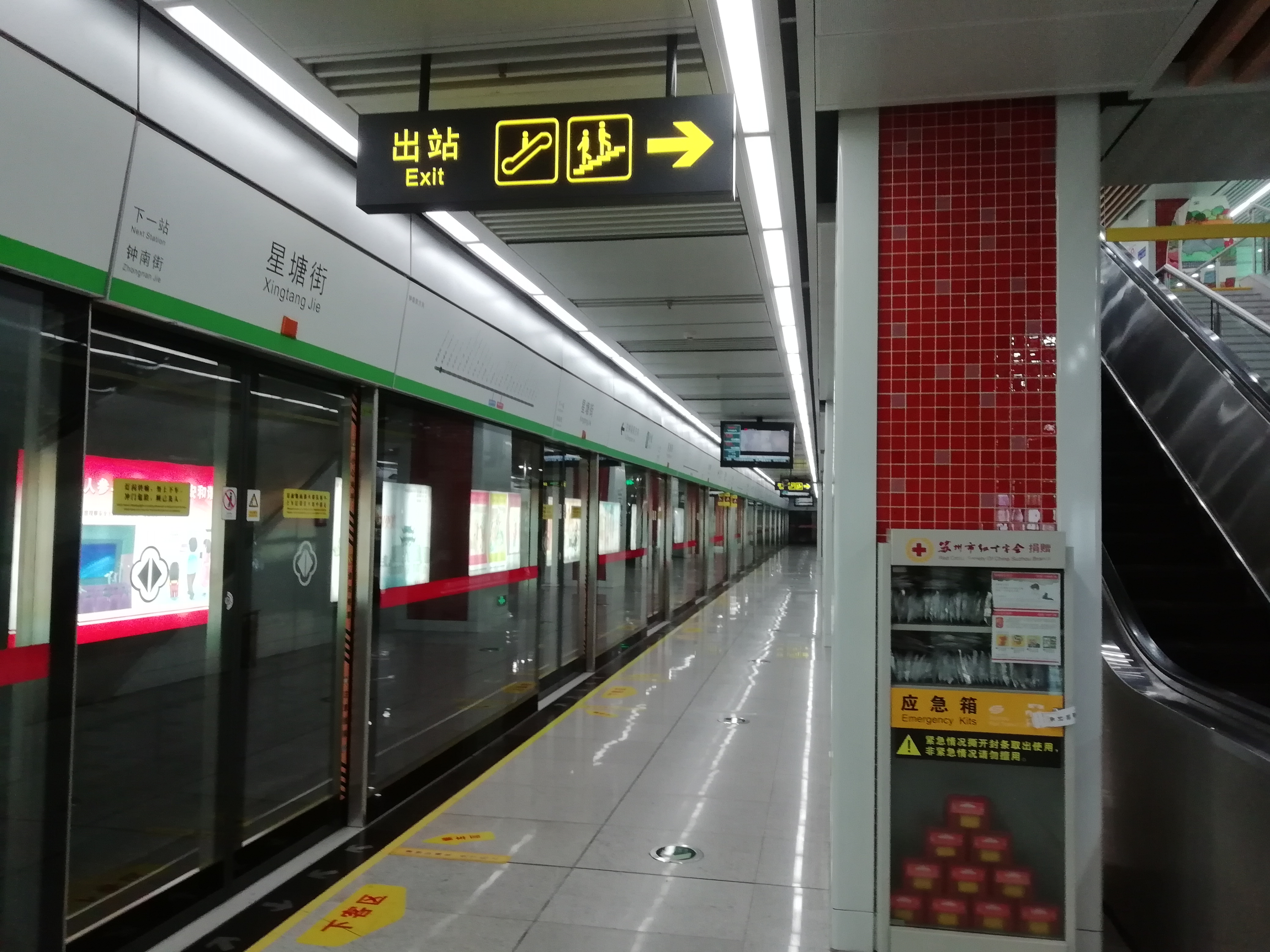 Platform of Xingtang Jie Station of Line 1, Suzhou Rail Transit 中文（中国大陆）: 苏州轨道交通1号线星塘街站台